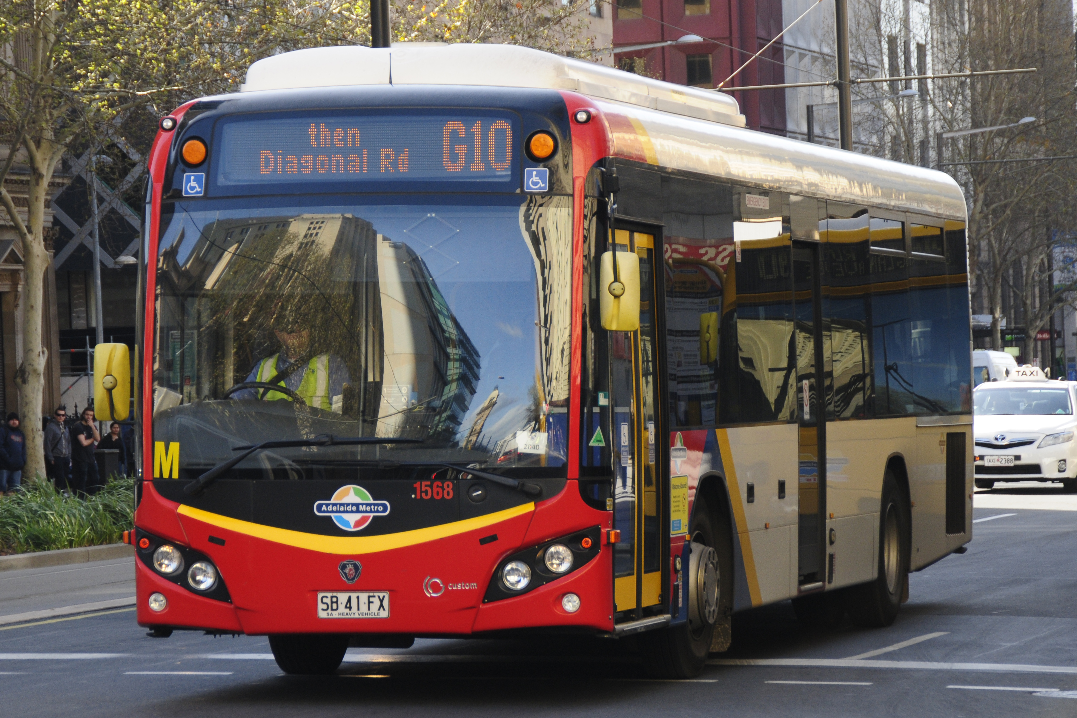 Light-City Buses Custom Coaches 'CB80' bodied Scania K280UB (Fleet no. 1568) of route G10 (to Marion Centre Interchange) on King William Street.